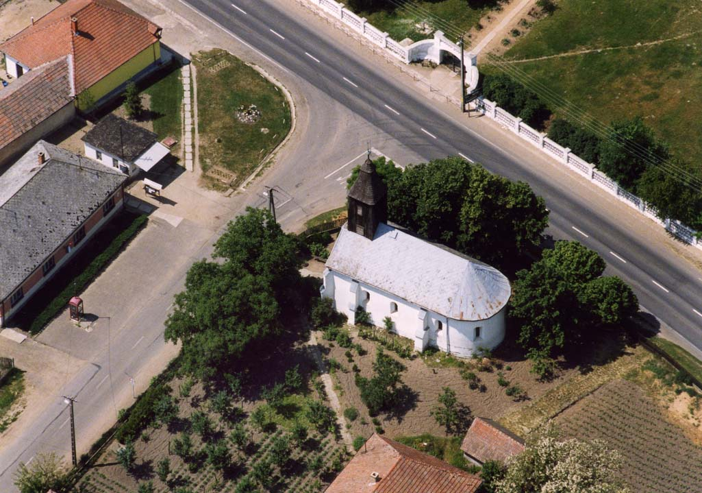 Székely, Hungary, aerial photography